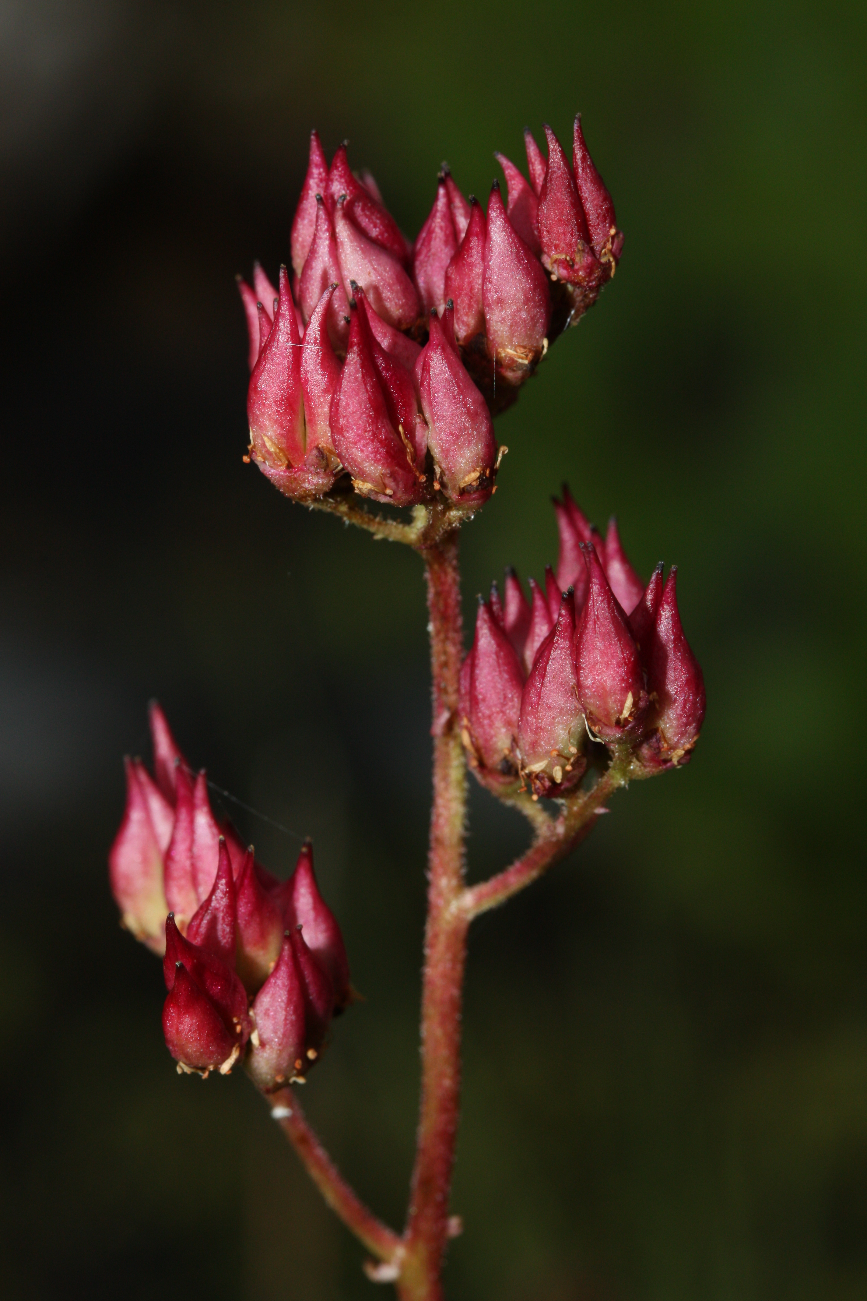 Leatherleaf Saxifrage, Fireleaf Leptarrhena, Pearleaf